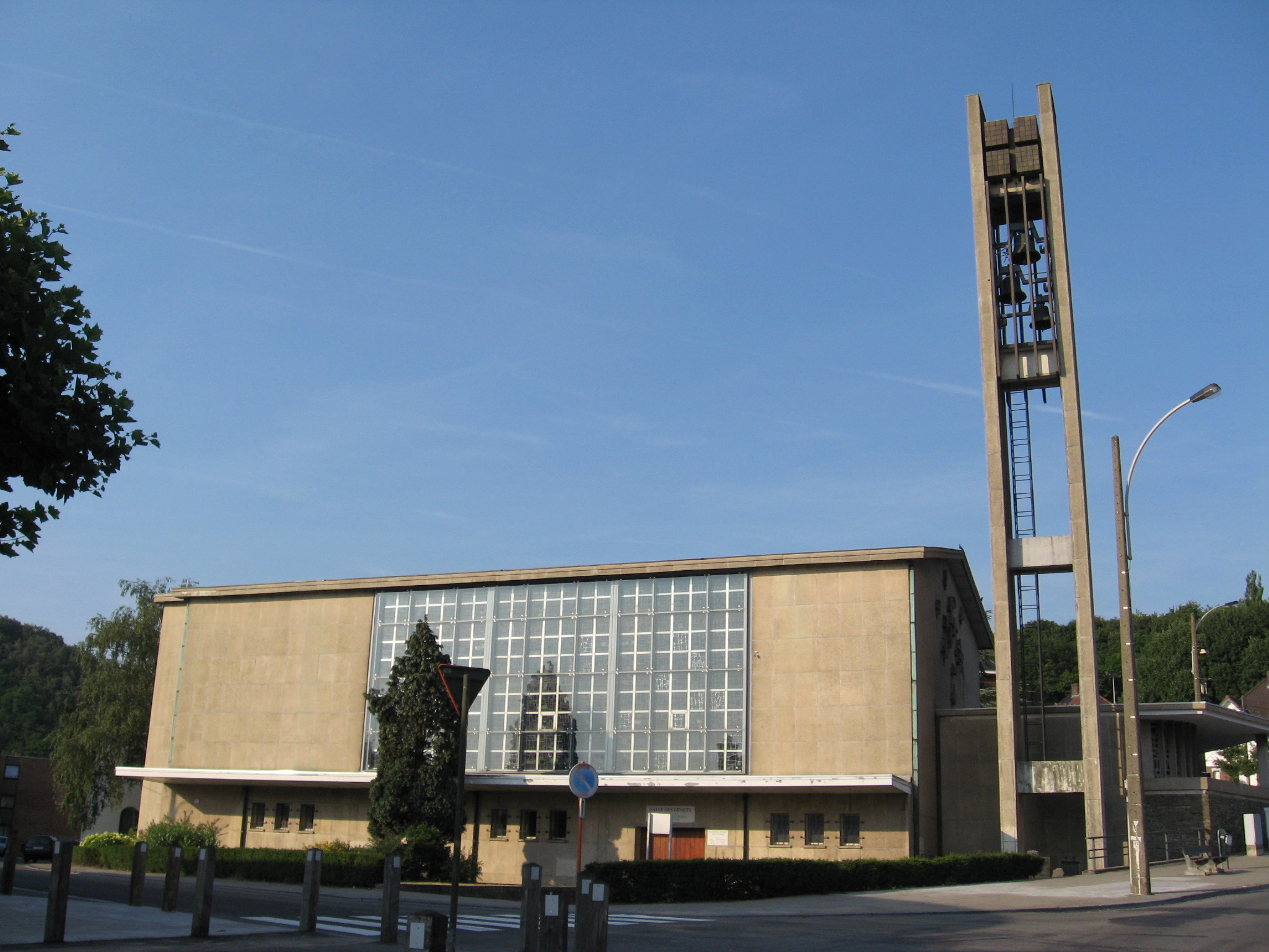 Church of Saint Juliana in Xhovémont, Liège, Belgium